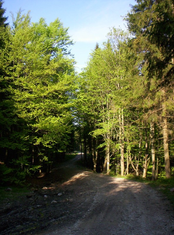 Marianna's Way (Czarnobielski Dukt) in Bialskie Mountains, Sudety Mountains, Poland